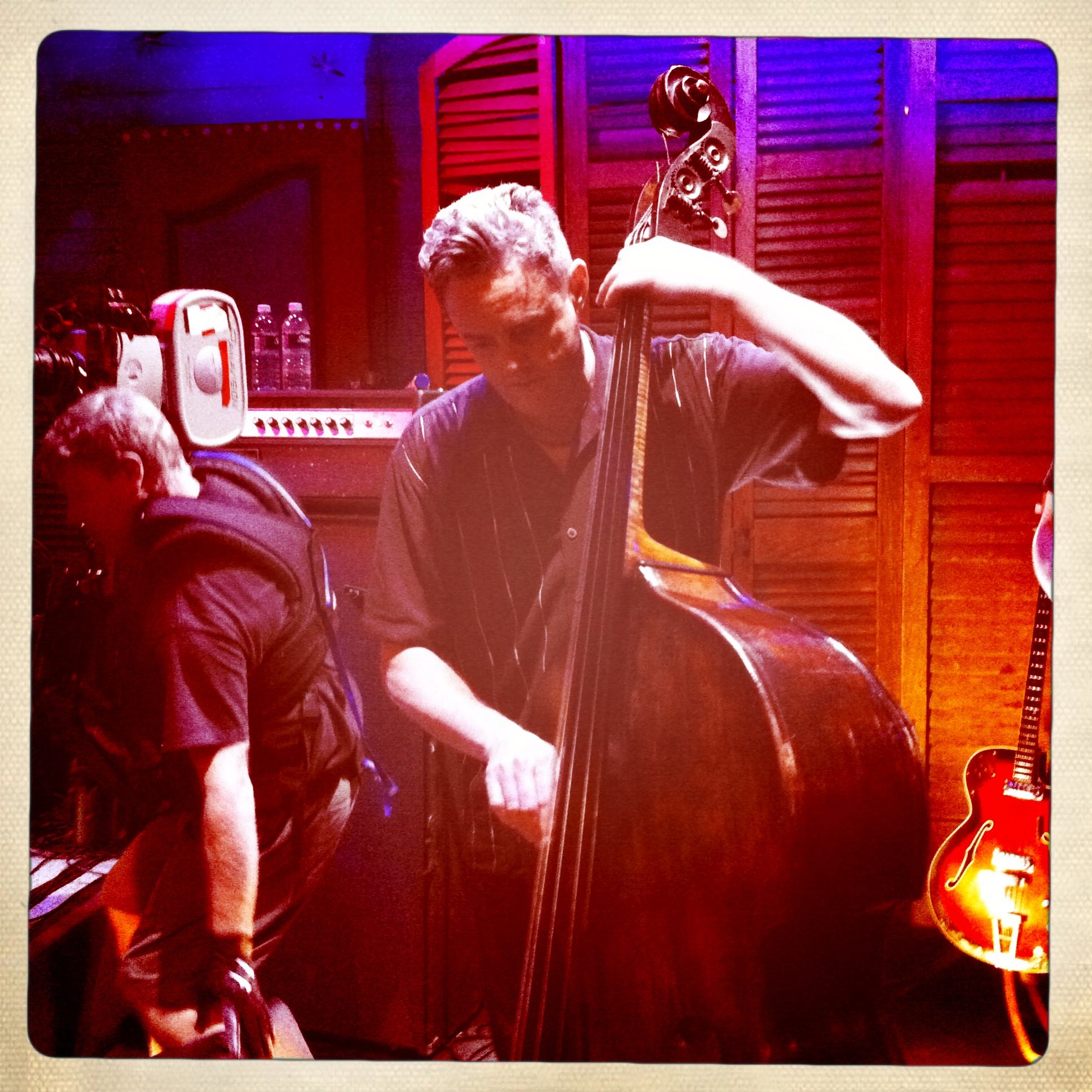 Patrick O'Hearn playing double bass in episode of HBO's series 'Treme' February 2011.